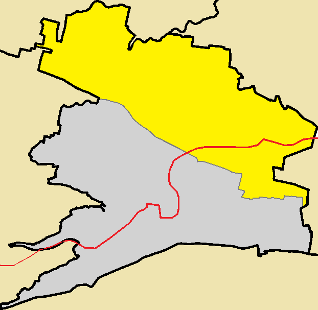 Agios Pavlos in Agios Dhometios.